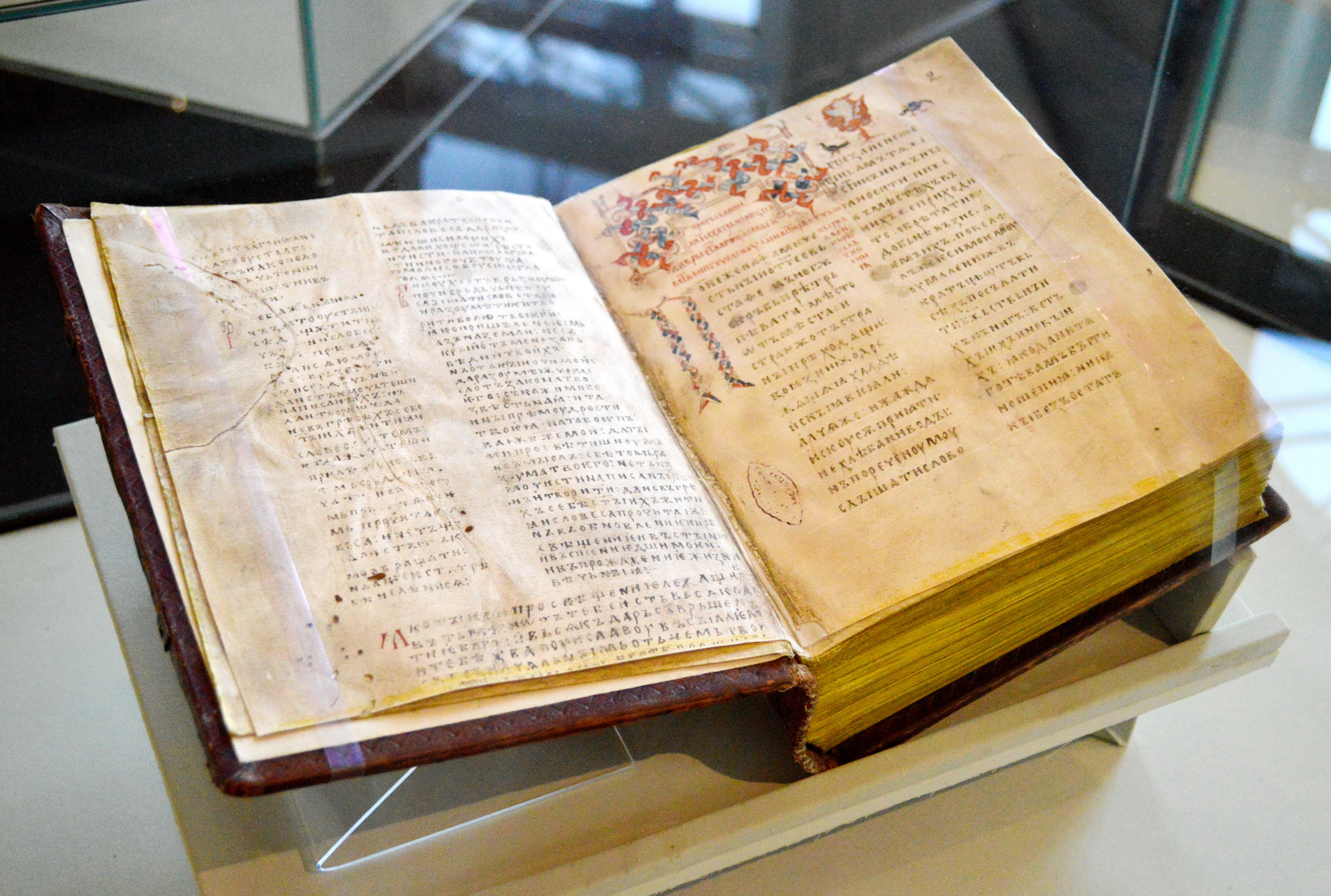 Pandects of Antiochus of Palestine (ca. 620), 11 c. manuscript, Ancient Rus'.